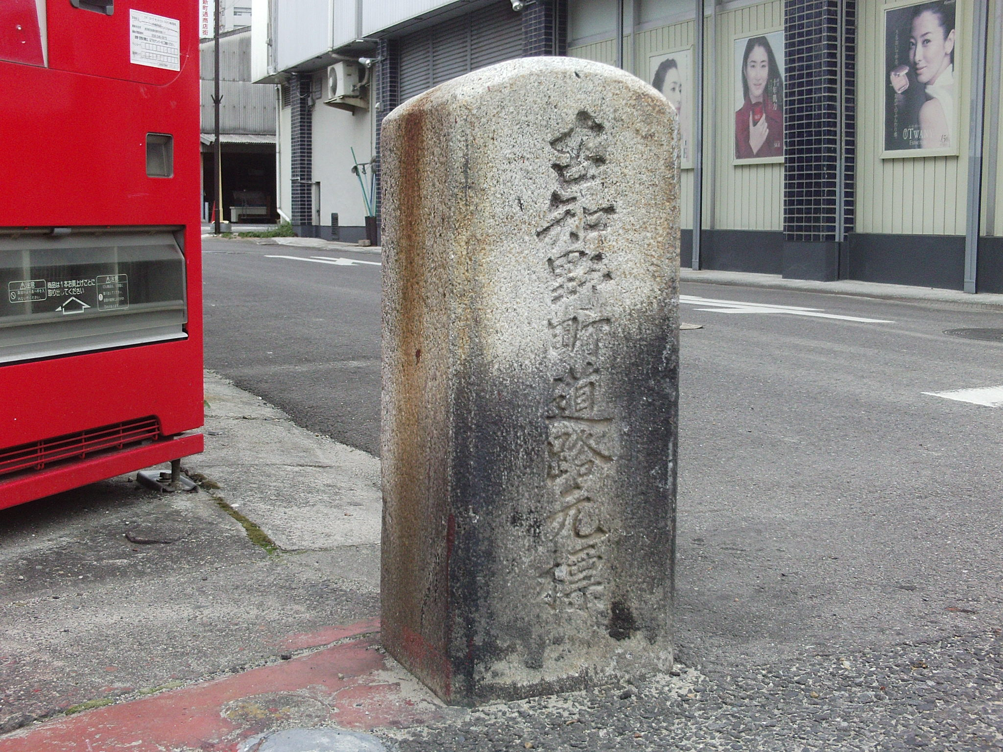 Kilometre zero of Kochino town. (Kochino town, Niwa-gun, Aichi.)